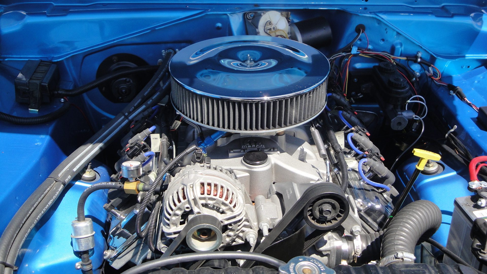 Mopars in the Park 2010 by Midwest Mopars